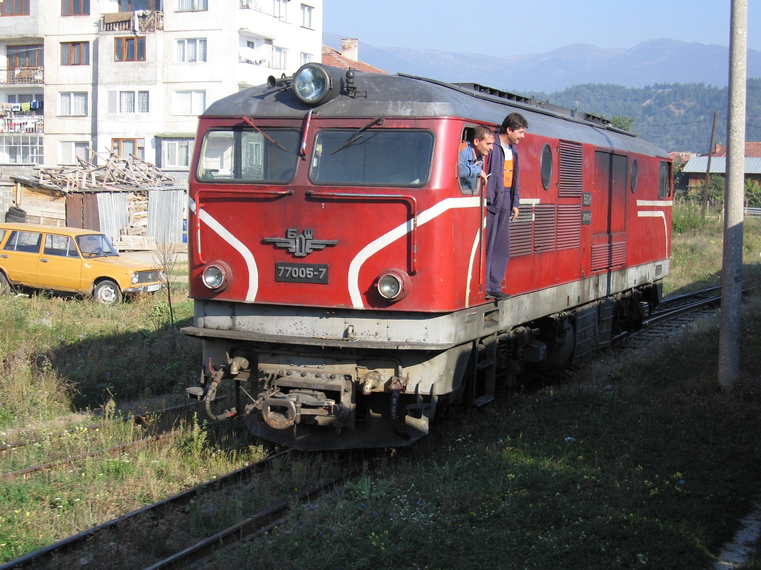 Locomotive 77005-7 of Bulgarian BDŽ / БДЖ. Narrow-gauge railway Septemvri–Dobrinishte.